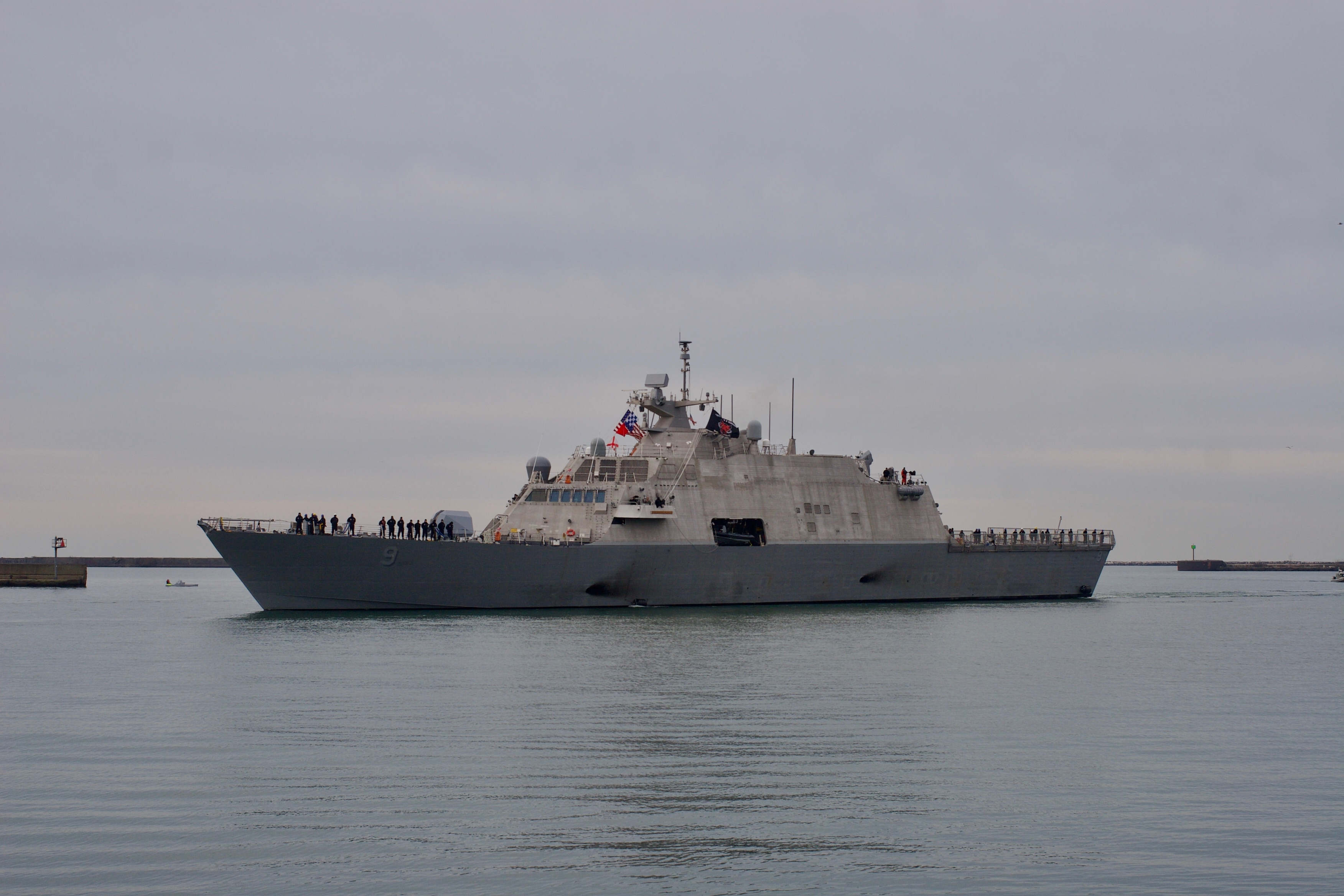 USS Little Rock Buffalo Harbor